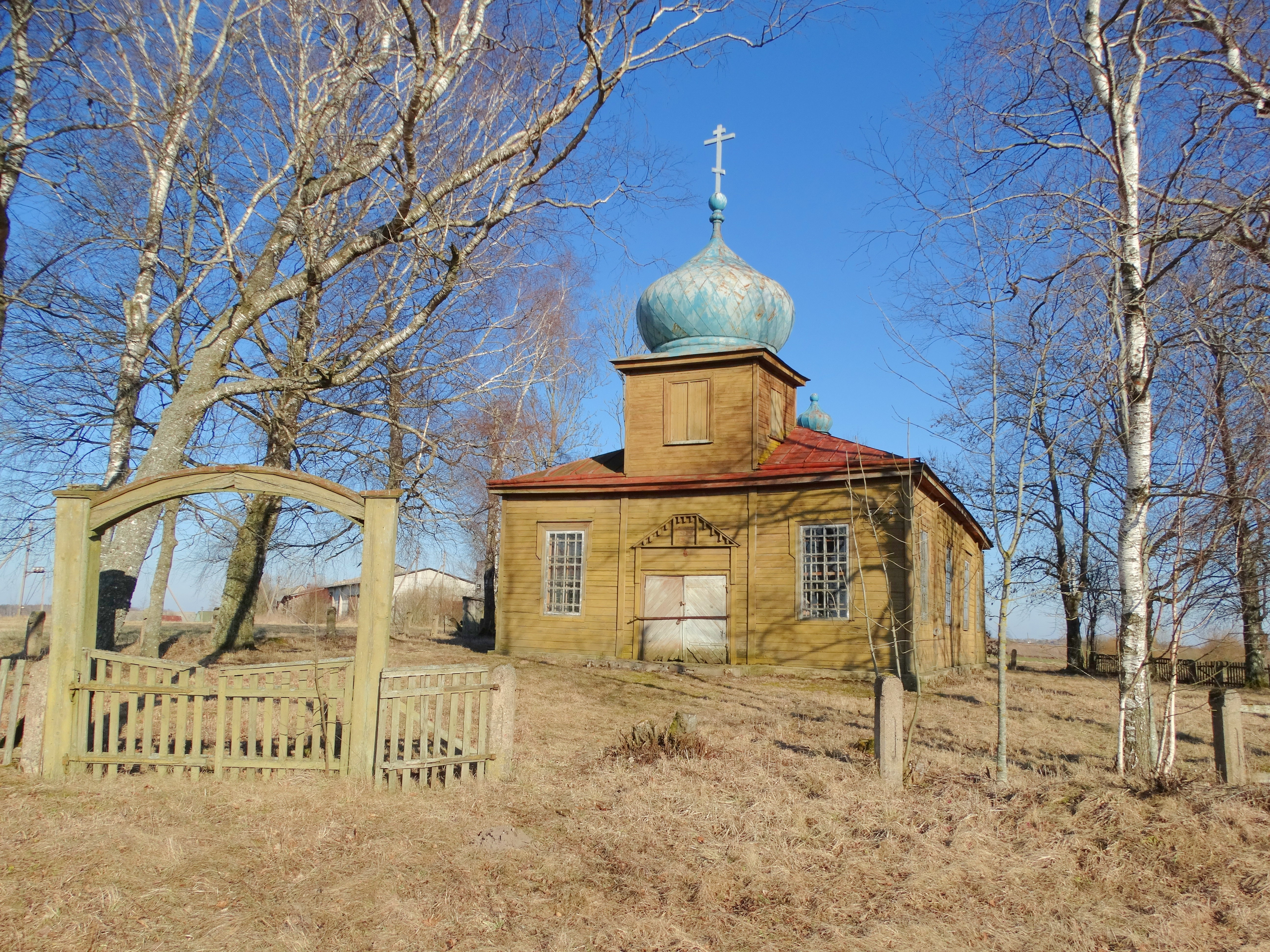 Orthodox Church of Old Believers in Sidariai, Radviliškis District, Lithuania